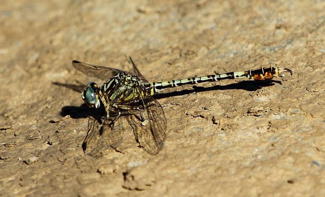 Rock Hooktail: male. Mangeni Falls, KwaZulu-Natal